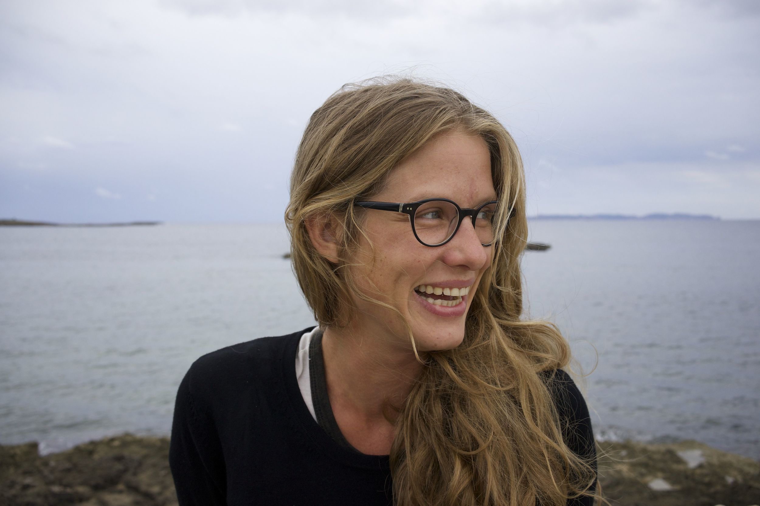 Magda Woitzuck